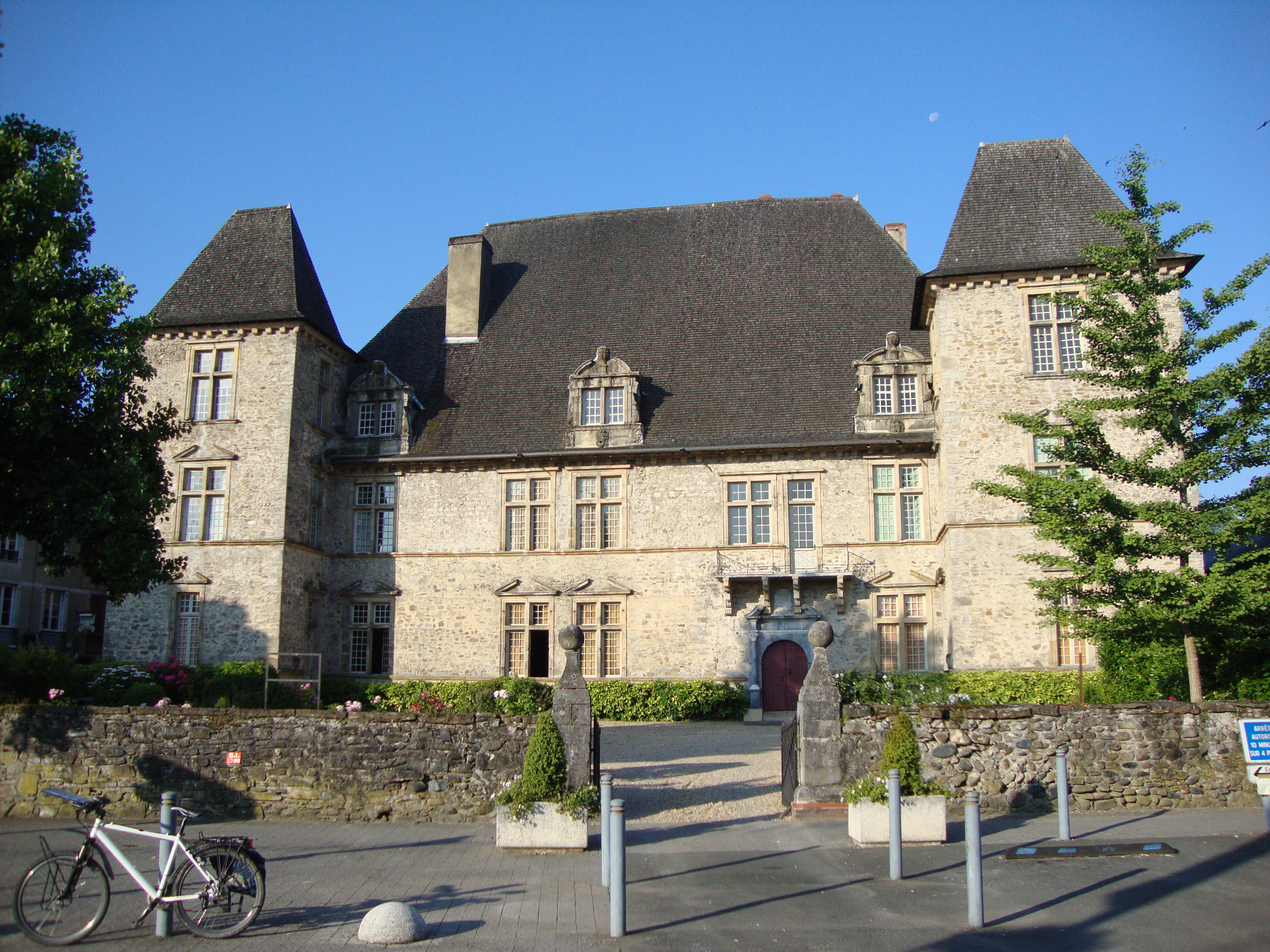 Mauléon-Licharre (Pyr-Atl, Fr) Château d'Andurain